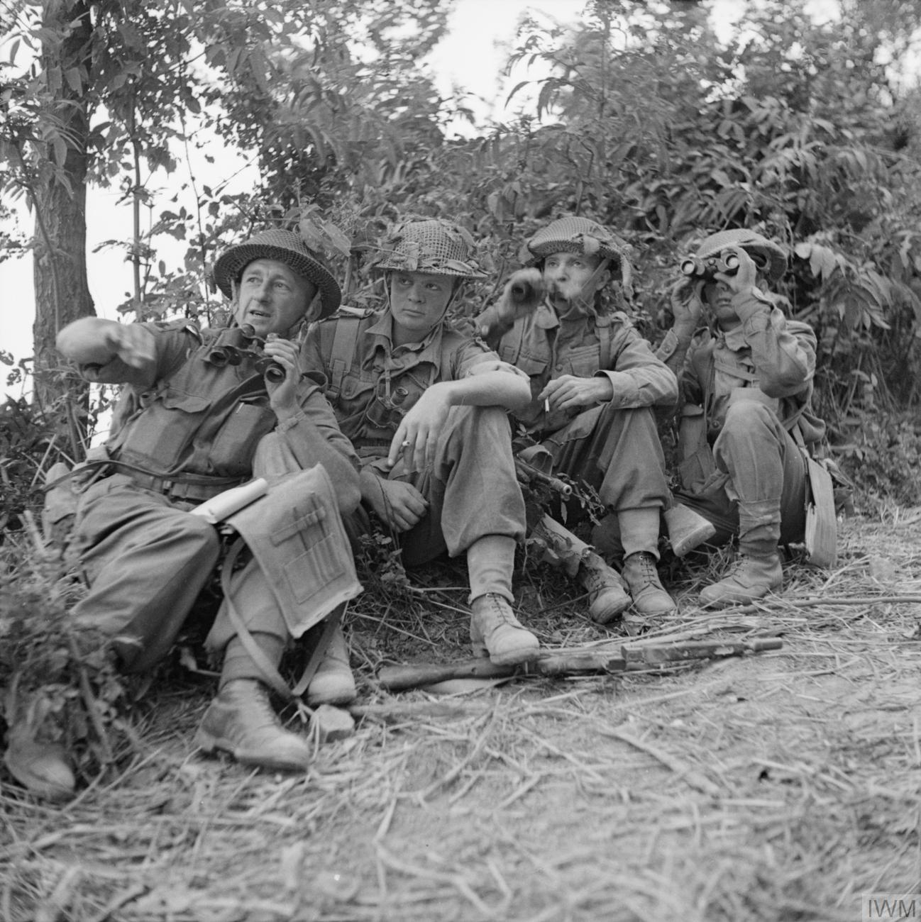 The British Army in Italy 1944 Platoon commanders of 7th Oxfordshire and Buckinghamshire Regiment are briefed for an attack on German forces in the village of Gemmano, 6 September 1944.